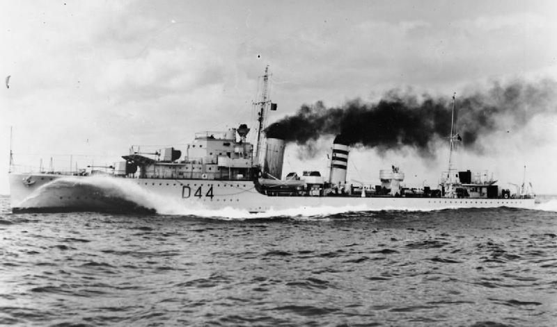 British destroyer HMS IMOGEN underway at speed.